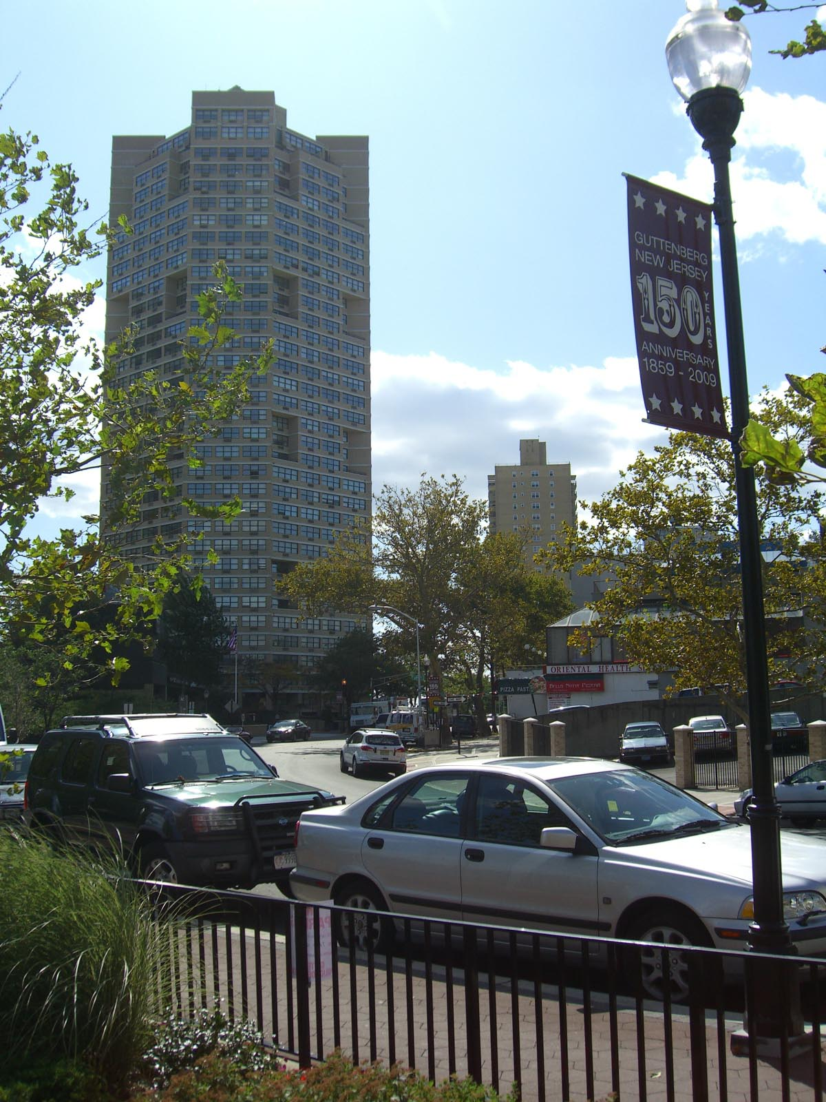 The Galaxy apartments on Boulevard East in Guttenberg, New Jersey. In the foreground is a sign advertising the town's 150th anniversary in 2009. This photo was created by Luigi Novi. It is not in the public domain, and use of this file outside of the licensing terms is a copyright violation.